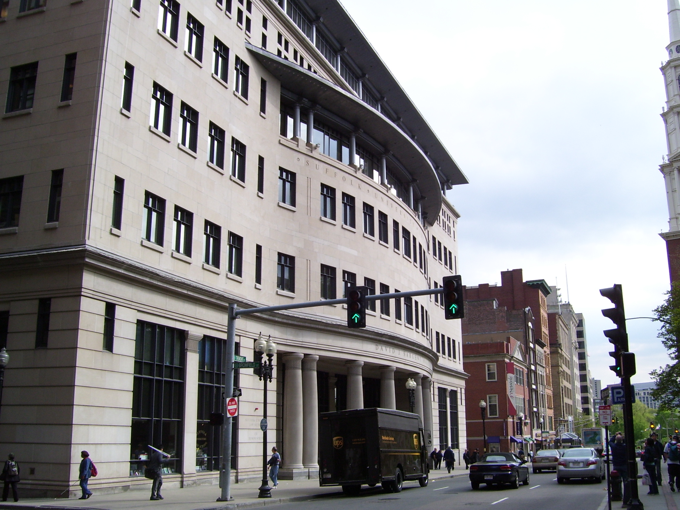 This is my 2008 photo of Suffolk University Law School in Boston, MA.